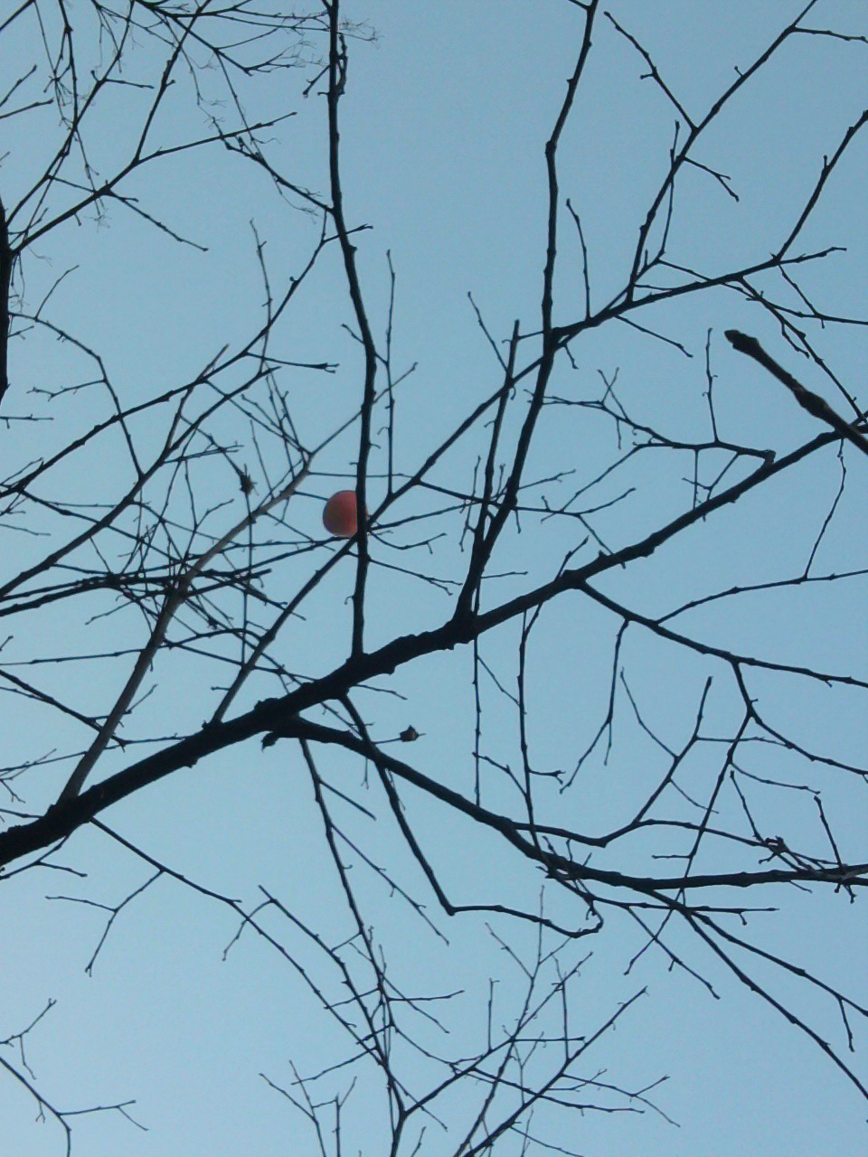 There is folklore in Korea that is called persimmon for magpie. In the harvest time, people do not pick the persimmons on the top of tree and left them for birds such as magpies.